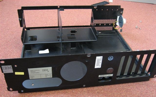 Chassis of a IBM 5150